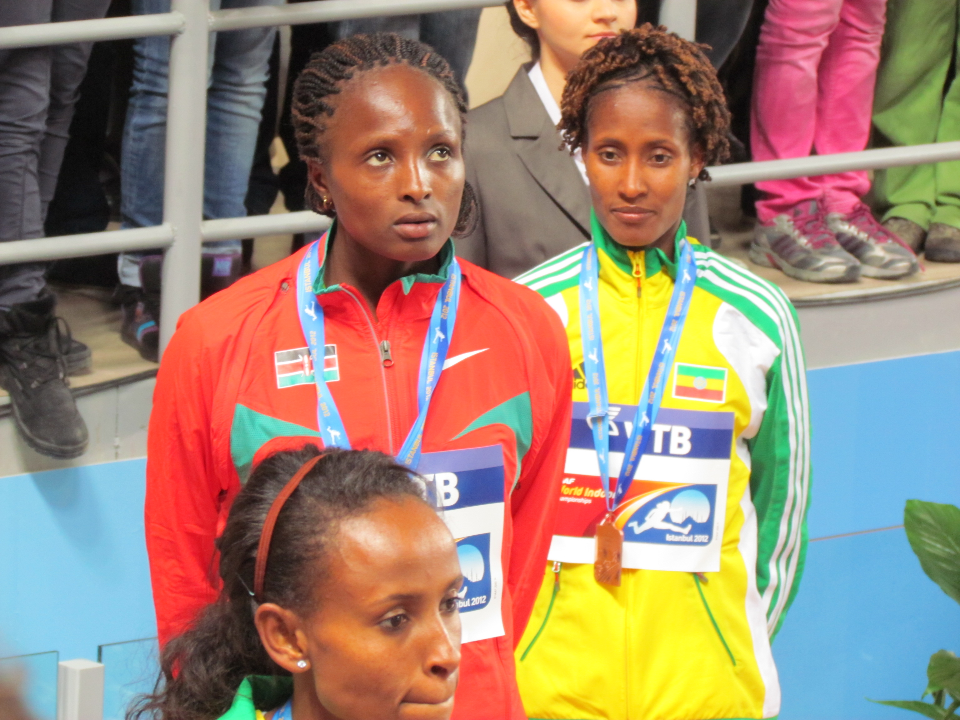 The 2012 IAAF World Indoor Championships in Athletics was the 14th edition of the global-level indoor track and field competition and was held between March 9–11, 2012 at the Ataköy Athletics Arena in Istanbul, Turkey. Meseret Defar, Hellen Onsando Obiri, Gelete Burka